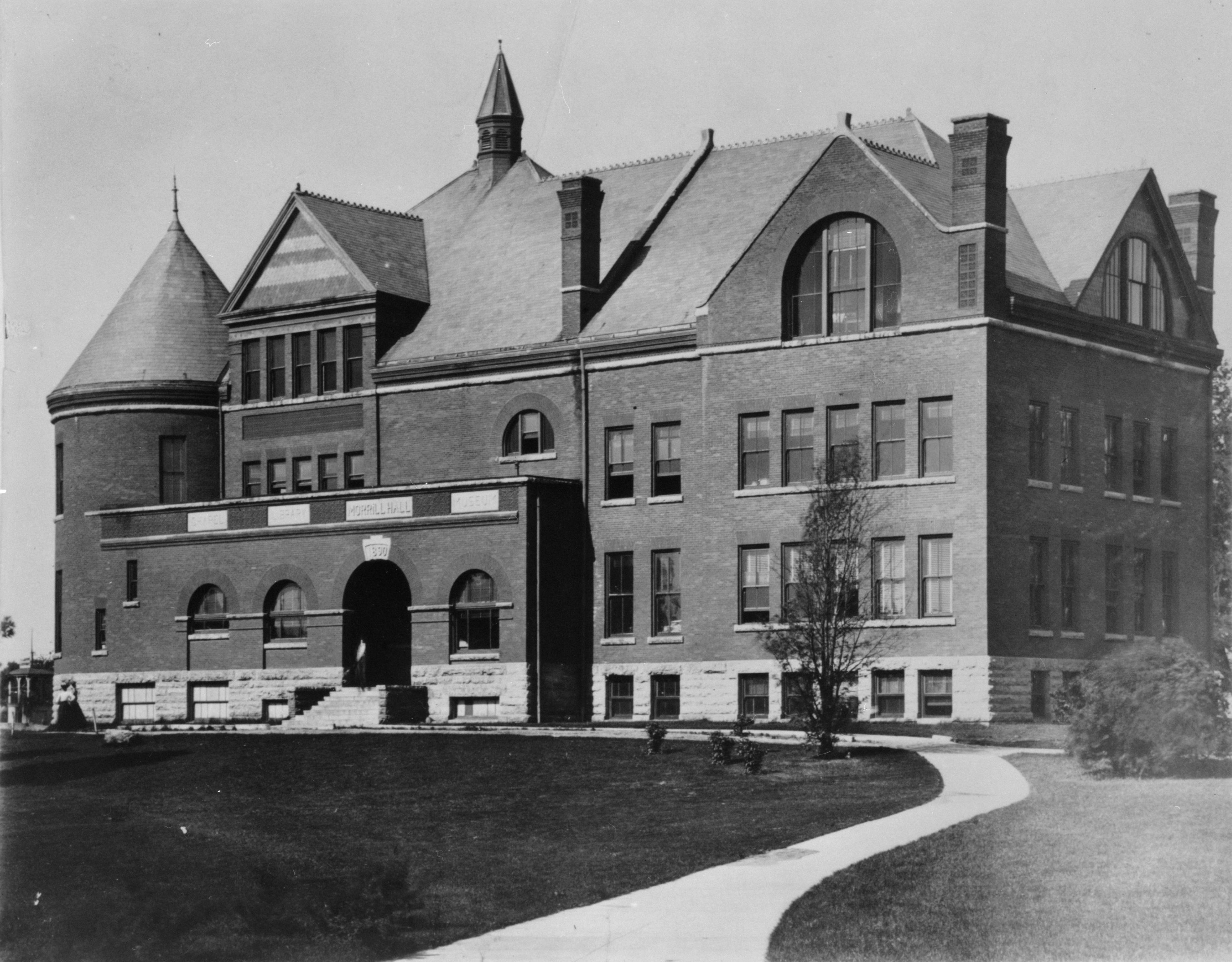 Front of Morrill Hall on the campus of Iowa State University in Ames, Iowa, United States. Built in 1891, the building is listed on the National Register of Historic Places.